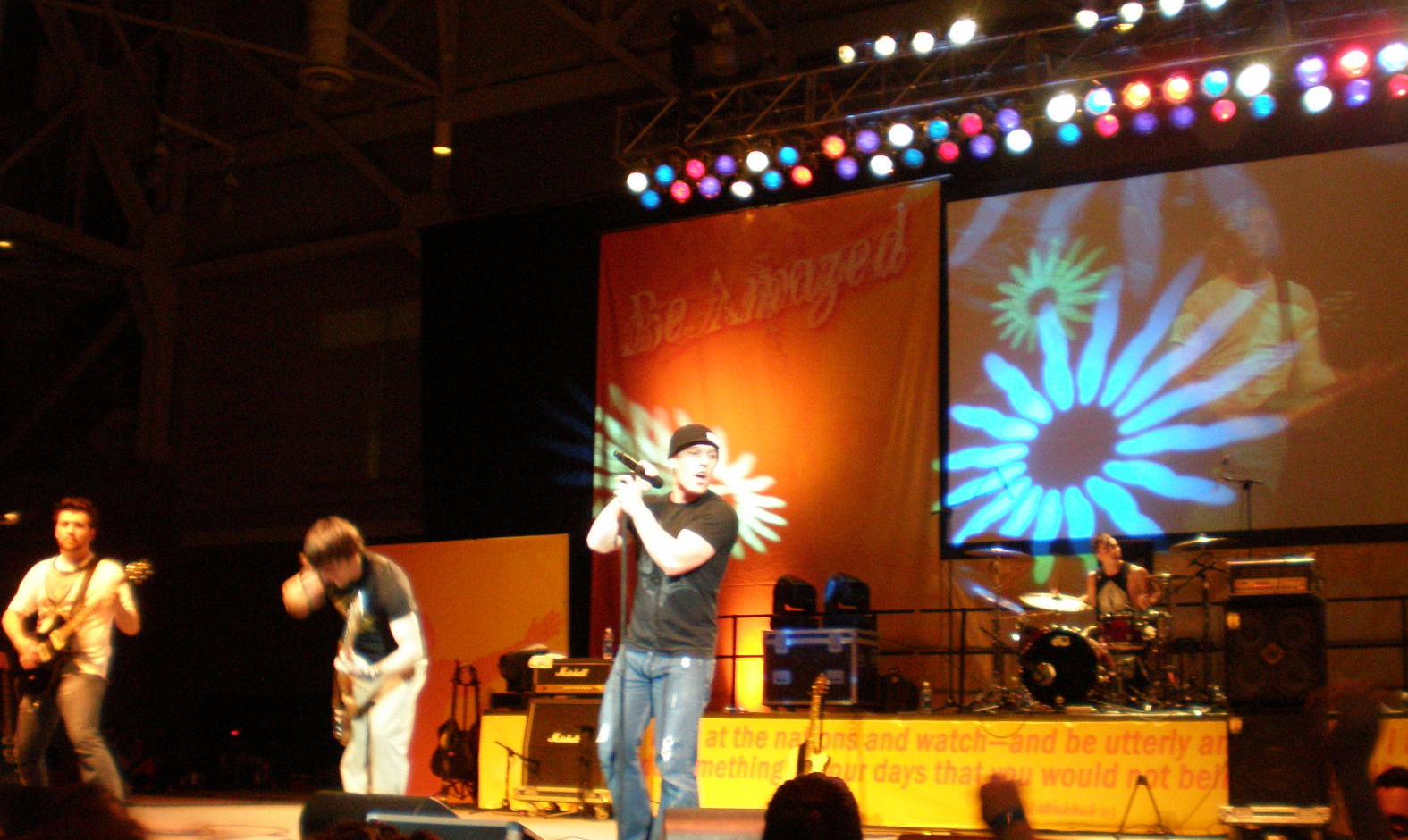 Christian rock band Kutless in concert on January 5, 2007.